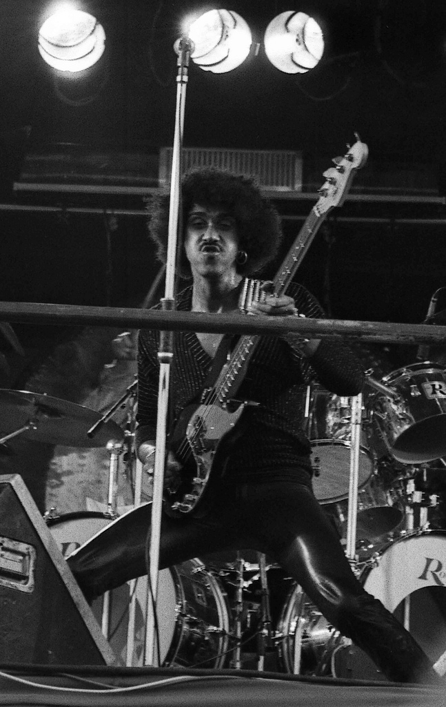 Phil Lynott #2 with Thin Lizzy, Pinkpop festival, 1978